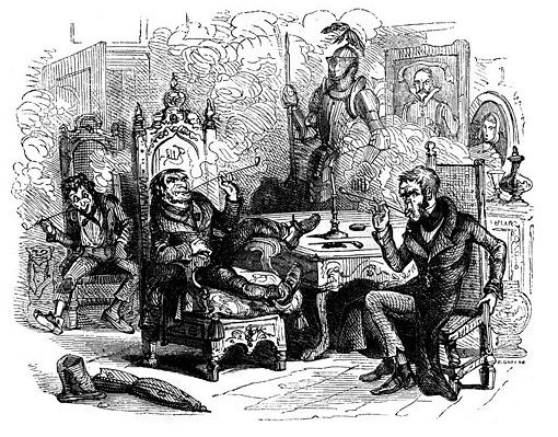 1840 etching by Phiz for The Old Curiosity Shop